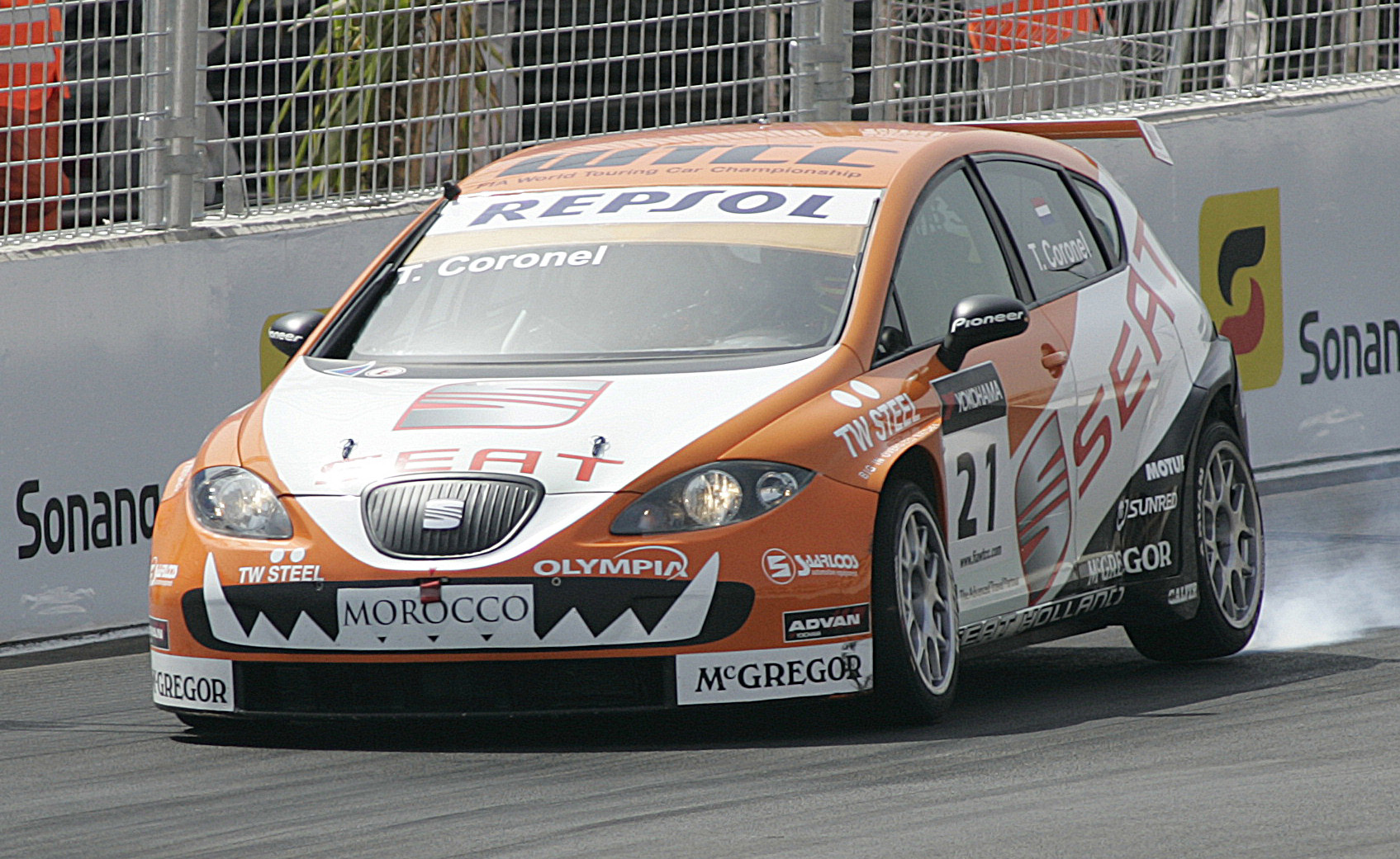 Tom Coronel driving SEAT Leon at Marrakech (2009 WTCC season).